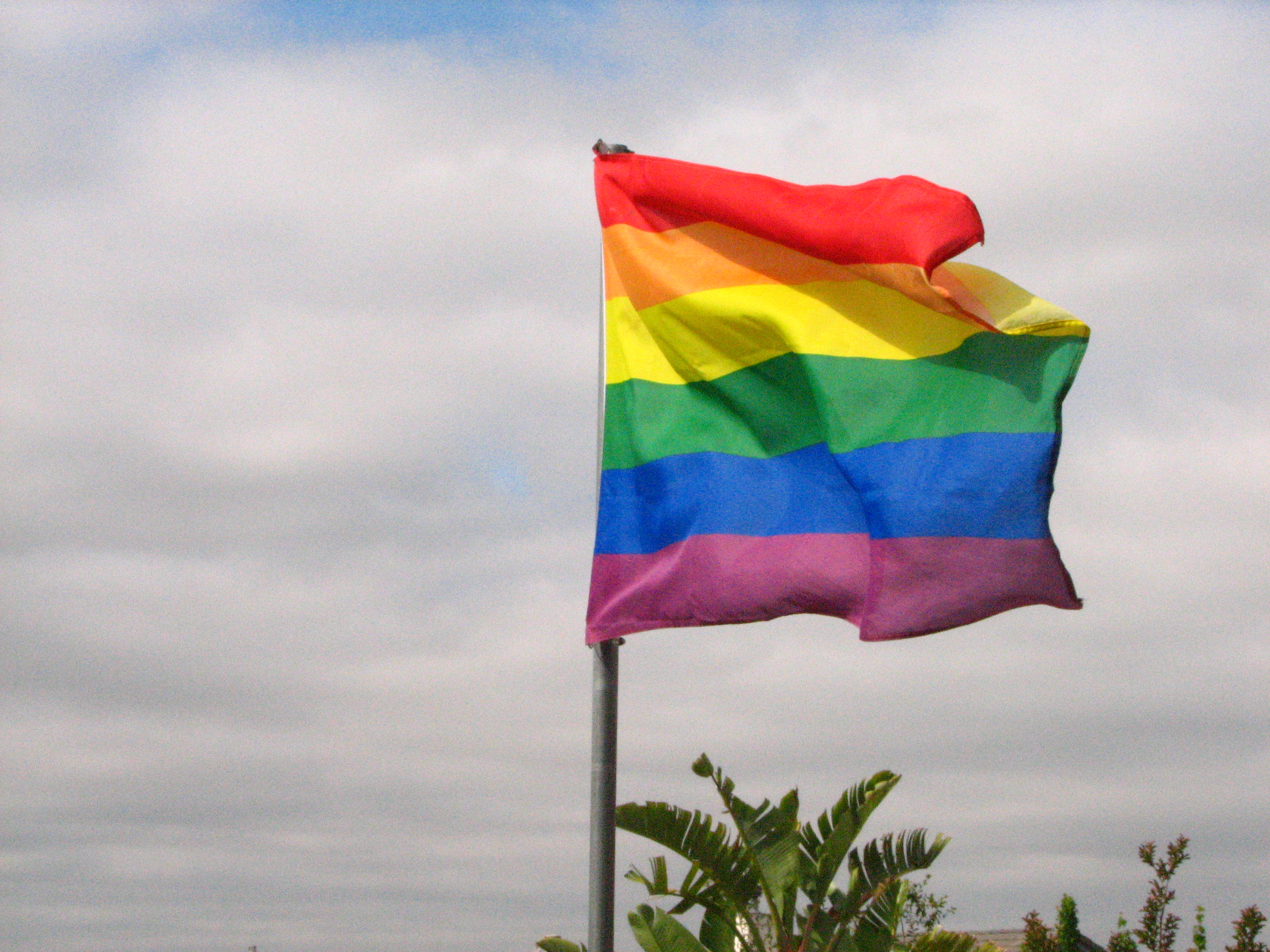 Rainbow flag. I took a few pics of this flag, this one was the most dramatic, I think.